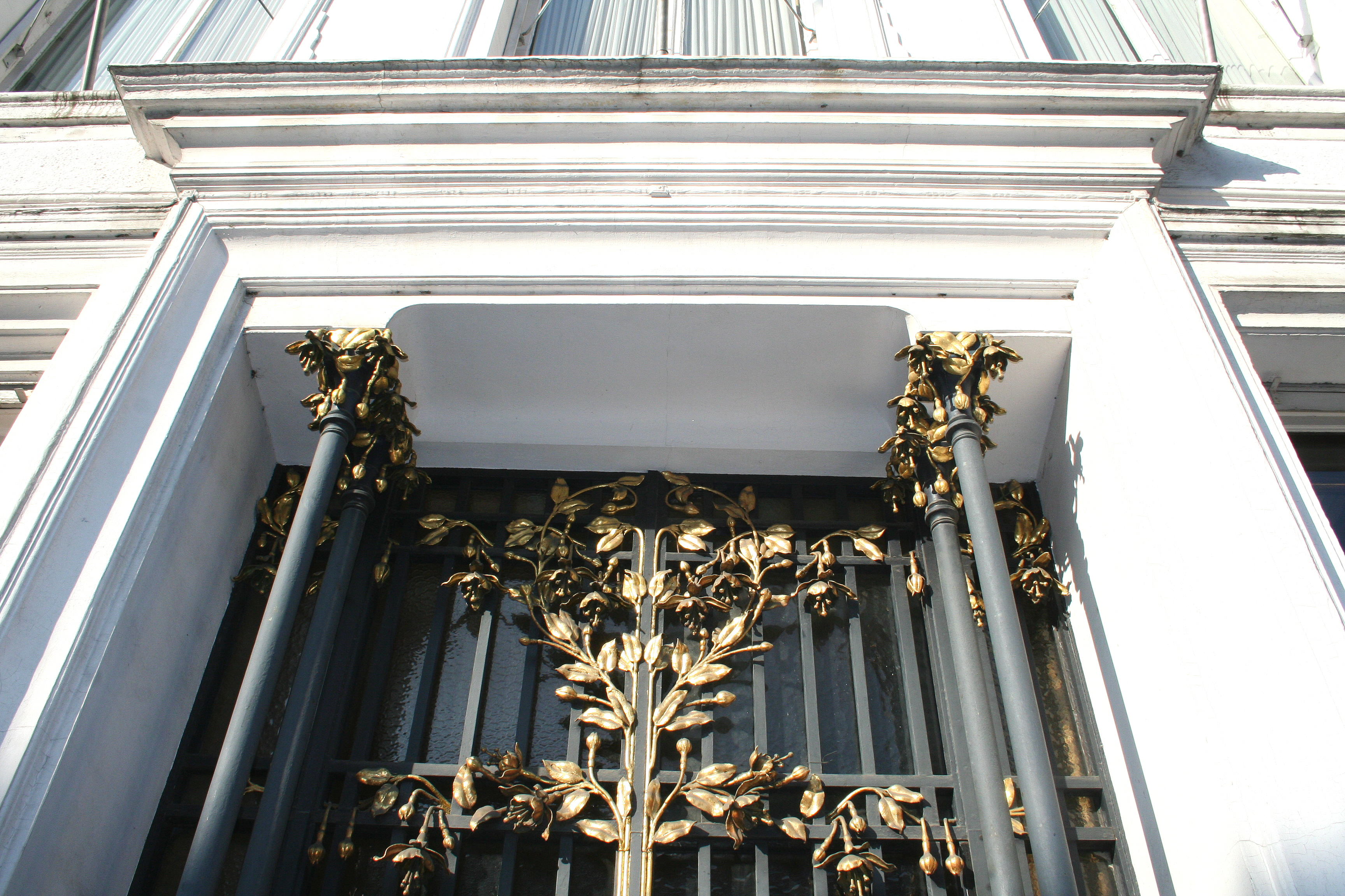 Mons (Belgium), rue de Nimy, 37 – Main door of the Losseau house (1899-1910).